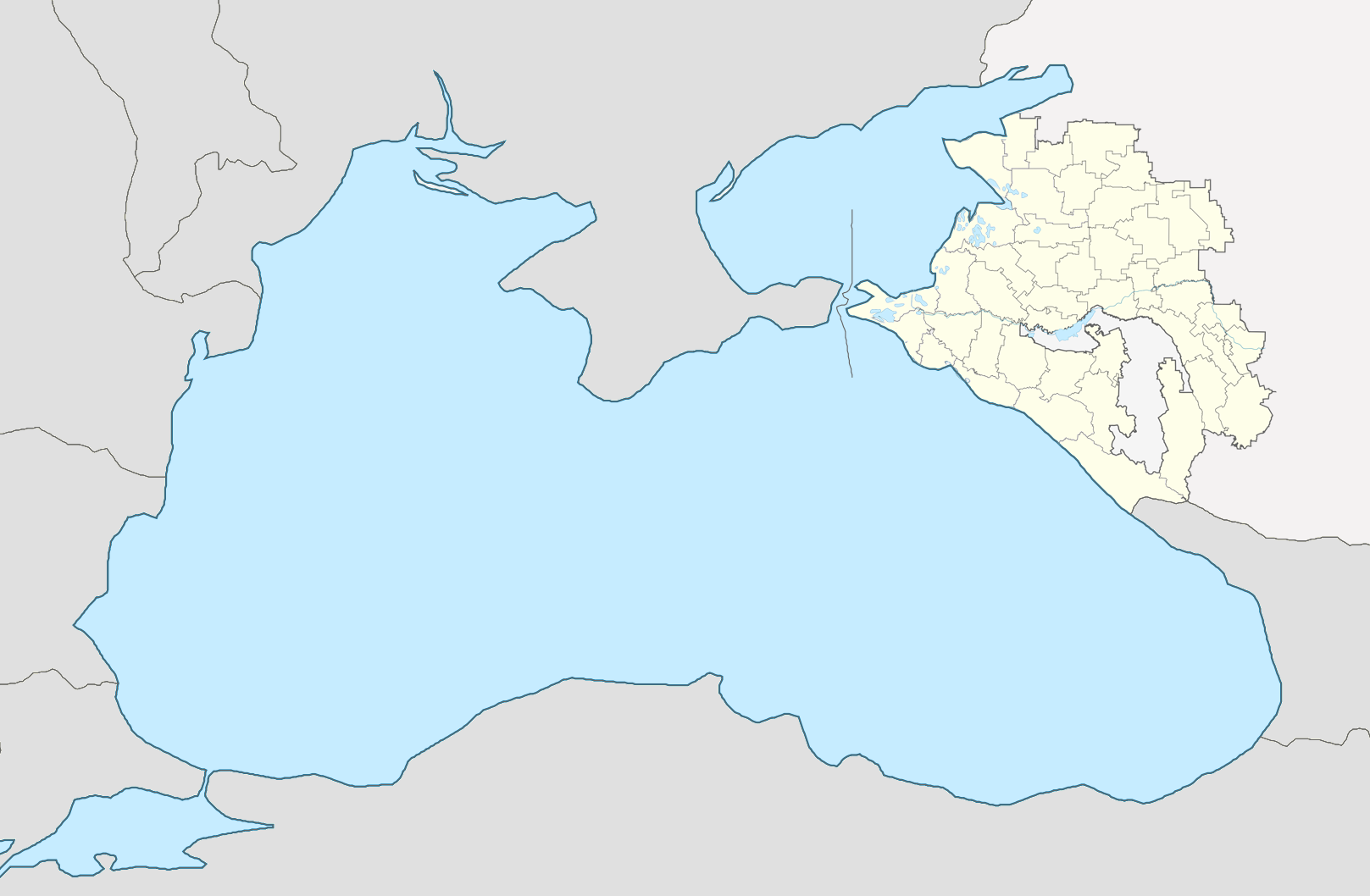 Location (in yellow) of Krasnodarski Krai (Krai = federal subject of Russia) at Black Sea